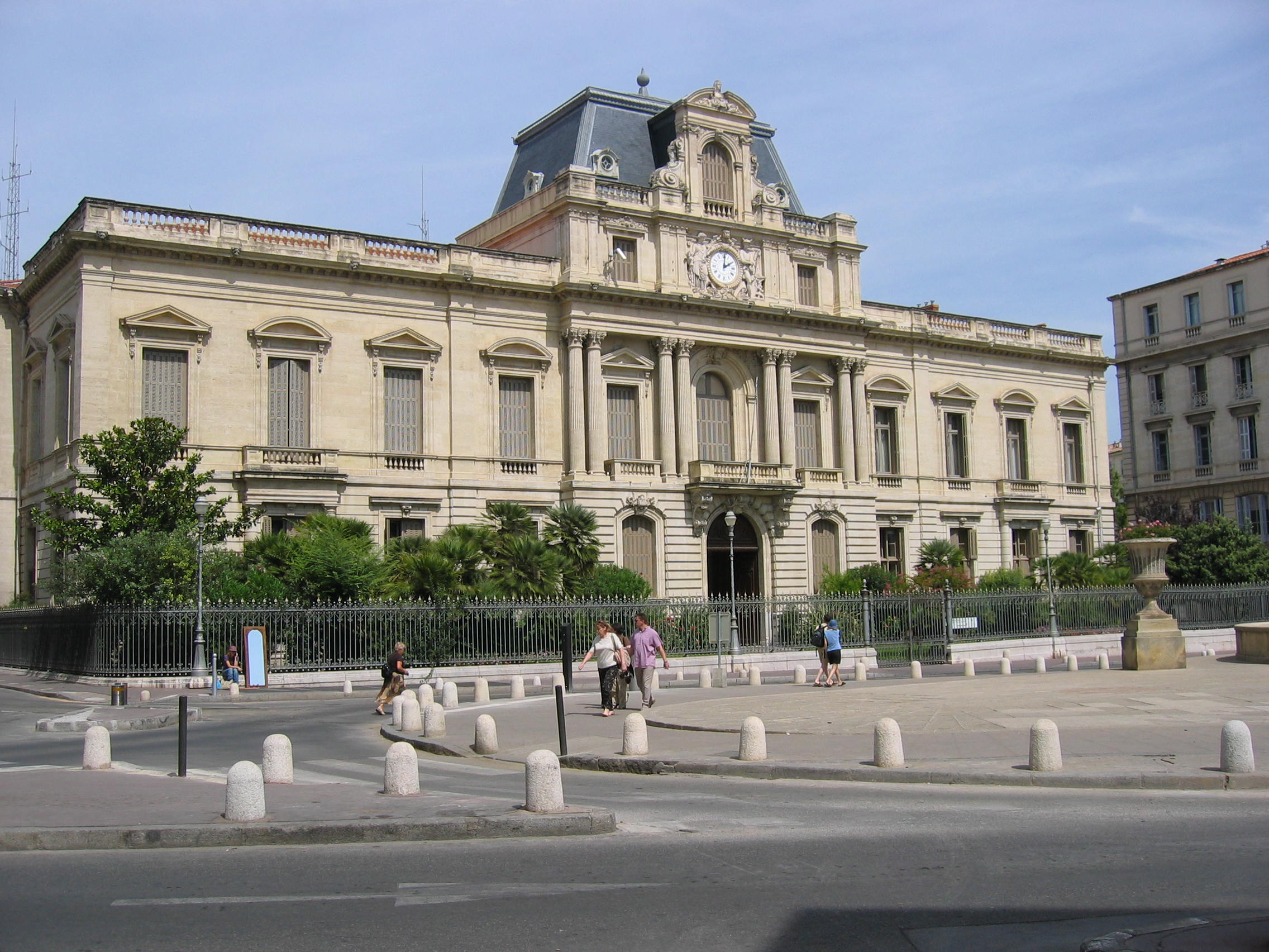 City of Montpellier, France. -- La Préfecture (Hérault).(Löschen) (Aktuell) 12:43, 24. Apr 2005 . . Jonaslange (Diskussion) . . 2272 x 1704 (687.440 Byte) (Montpellier in Südfrankreich. Quelle: Selbst fotografiert Bild-GFDL.